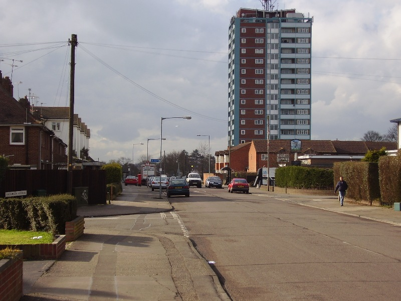 One of Chelmsfords tallest buildings, the 141.04 ft Melbourne Court.